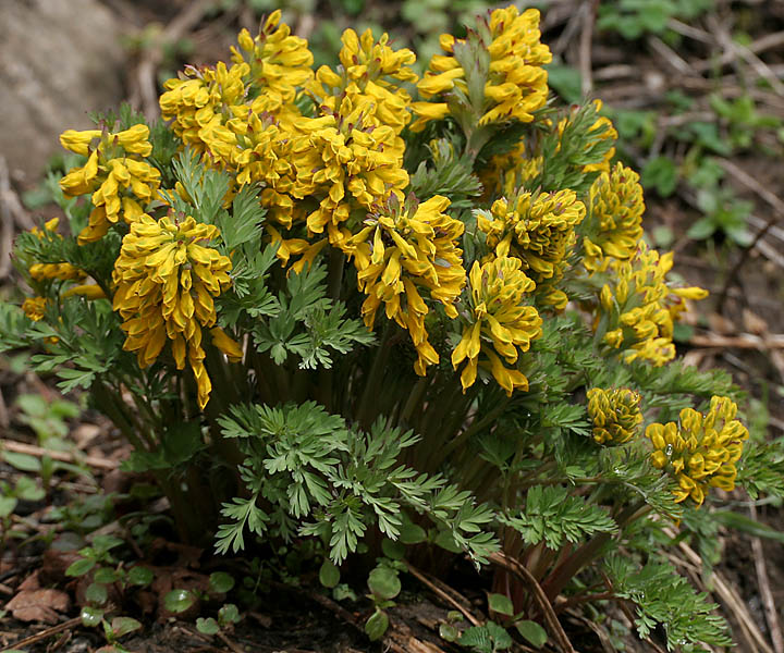 Govan's Corydalis Corydalis govaniana in Kullu District of Himachal Pradesh, India.